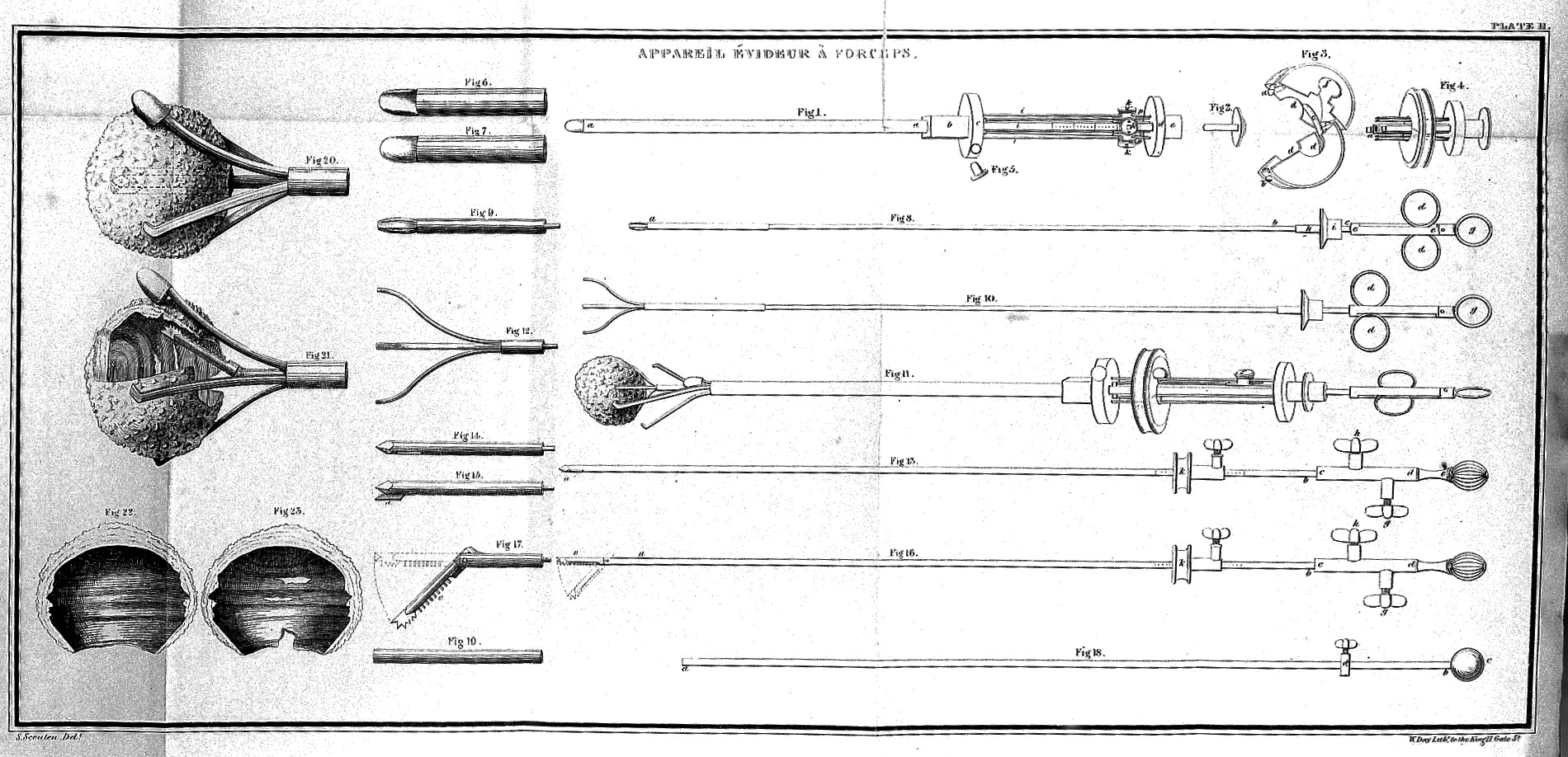 Instruments of lithotripsy. Rare Books Keywords: extracorporeal shock wave lithotripsy; kidney stones; Charles Louis Stanislas Heurteloup